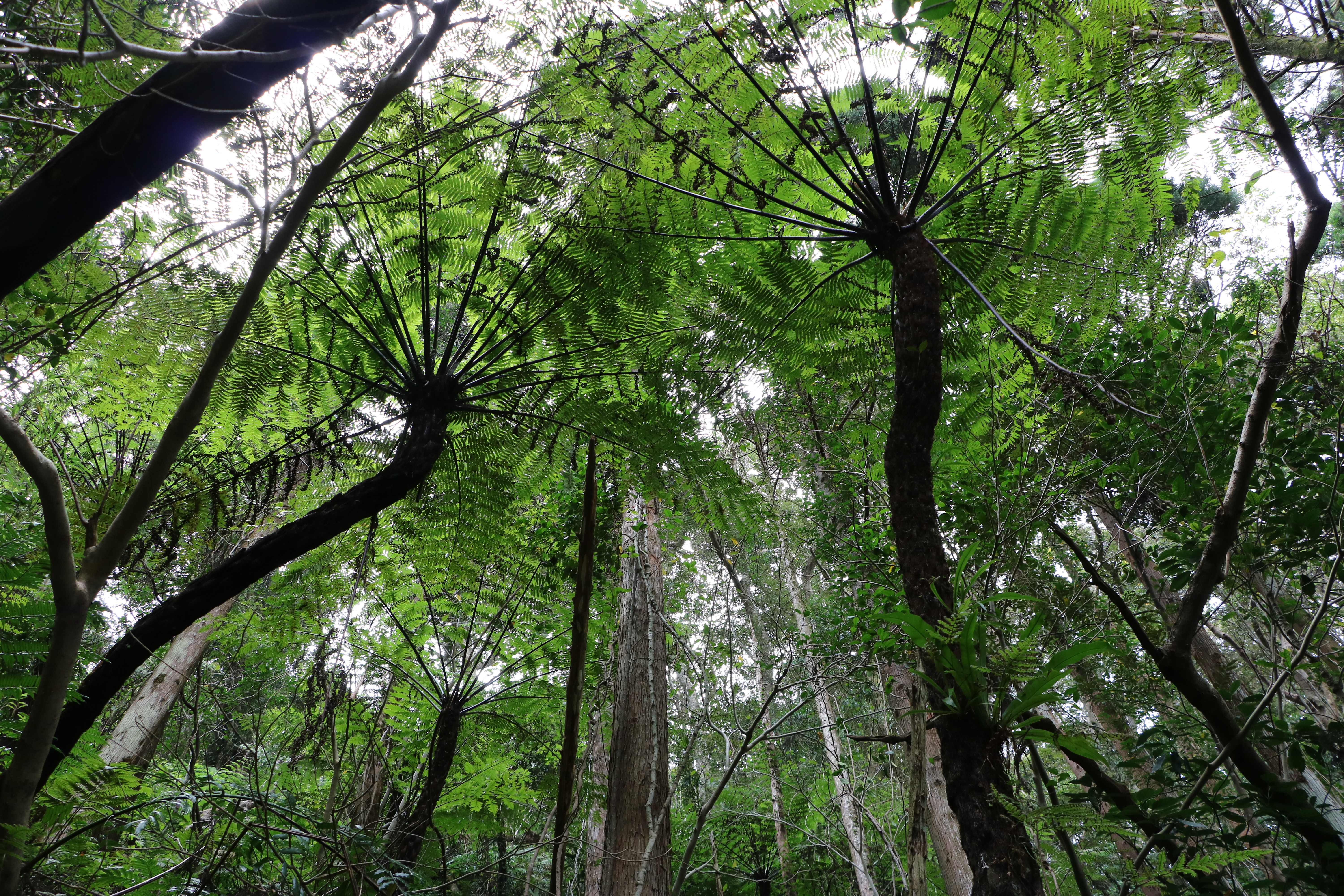 Northern limit of Hego habitat in Hachijojima Island